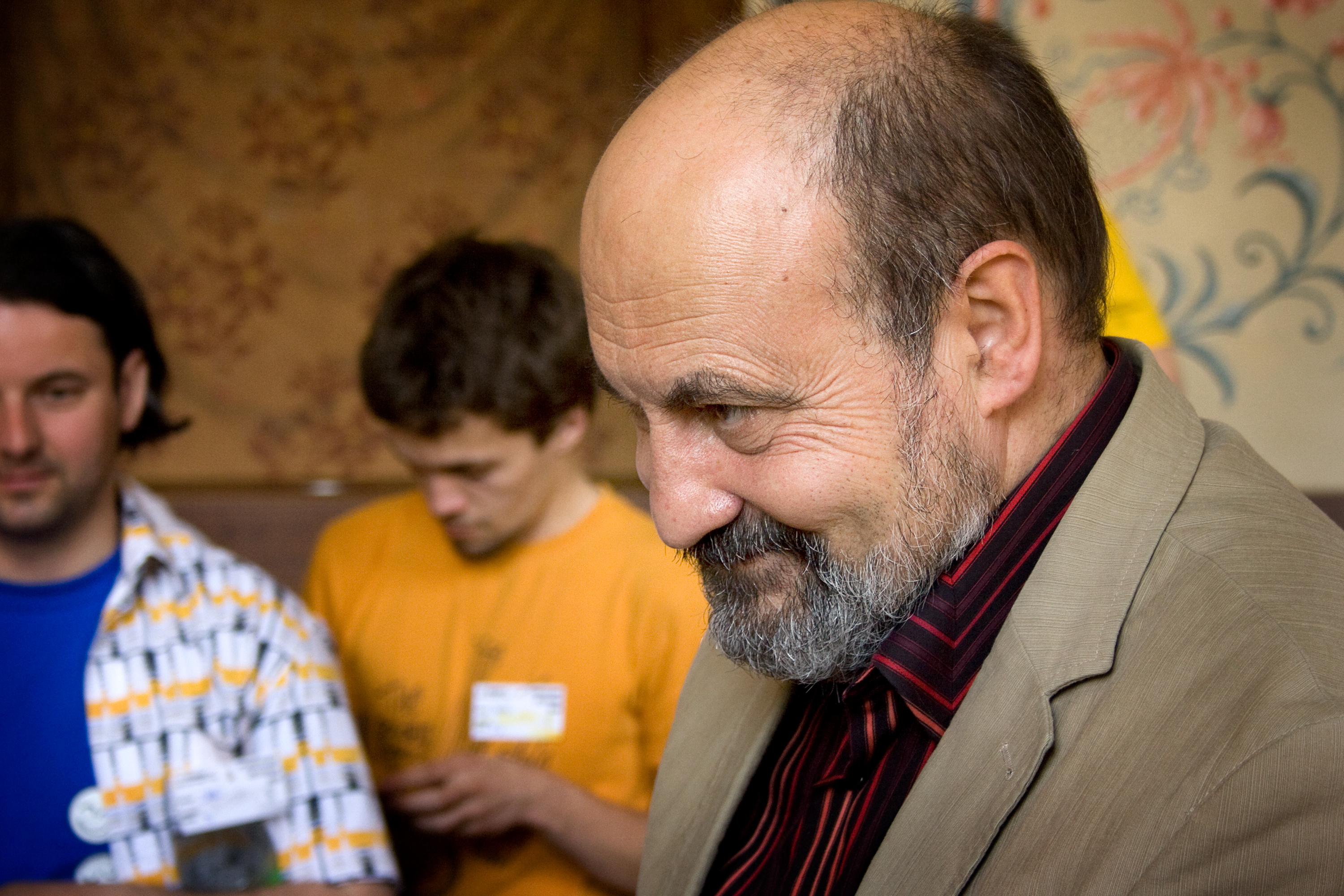 Tomáš Halík